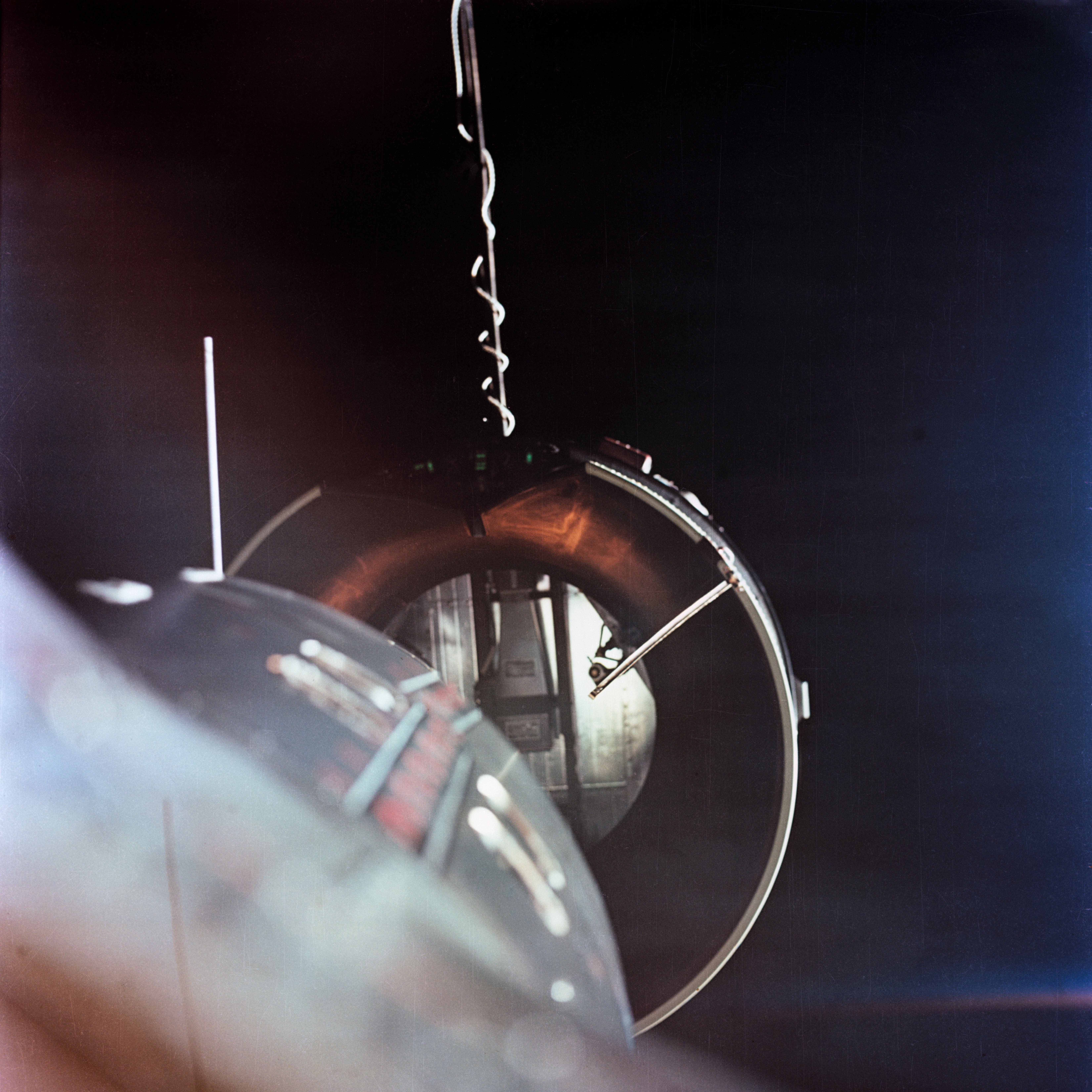 The Agena Target Docking Vehicle seen from the National Aeronautics and Space Administration's Gemini adapter of the Agena is approximately two feet from the nose of the spacecraft (lower left). Crewmen for the Gemini-8 mission were astronauts Neil A. Armstrong, command pilot, and David R. Scott, pilot.